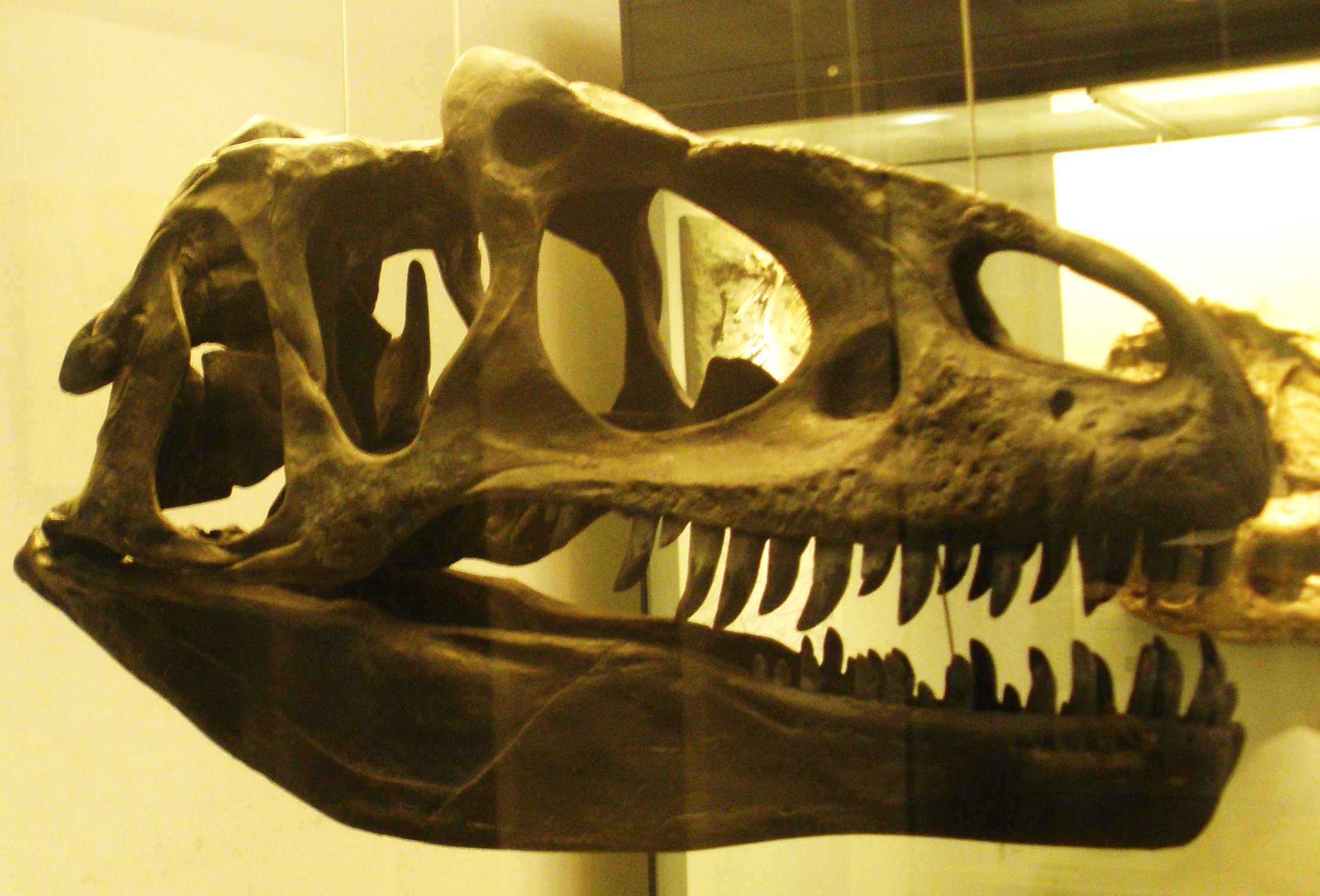 fossil of Allosaurus